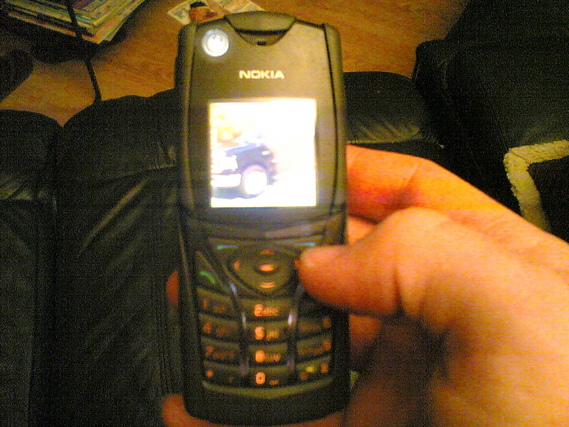 Oh, no. Its not sold here. That is the nokia 5140. I really like it. I am using it with the gps housing. It has a lot of features, and the gps is all you can expect from a phone. It is my active phone though, able to withstand splashing and dirt, and frequent drops. The problem is that i could get a better gps for 300, which is less than i paid for it. So, in a round about way, i guess someone should buy it from me, is what i'm saying.